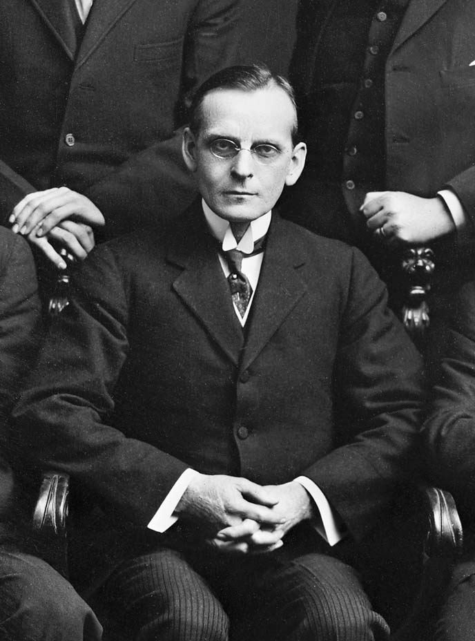 Joseph Edward Atkinson, c.1910s Source: City of Toronto archives